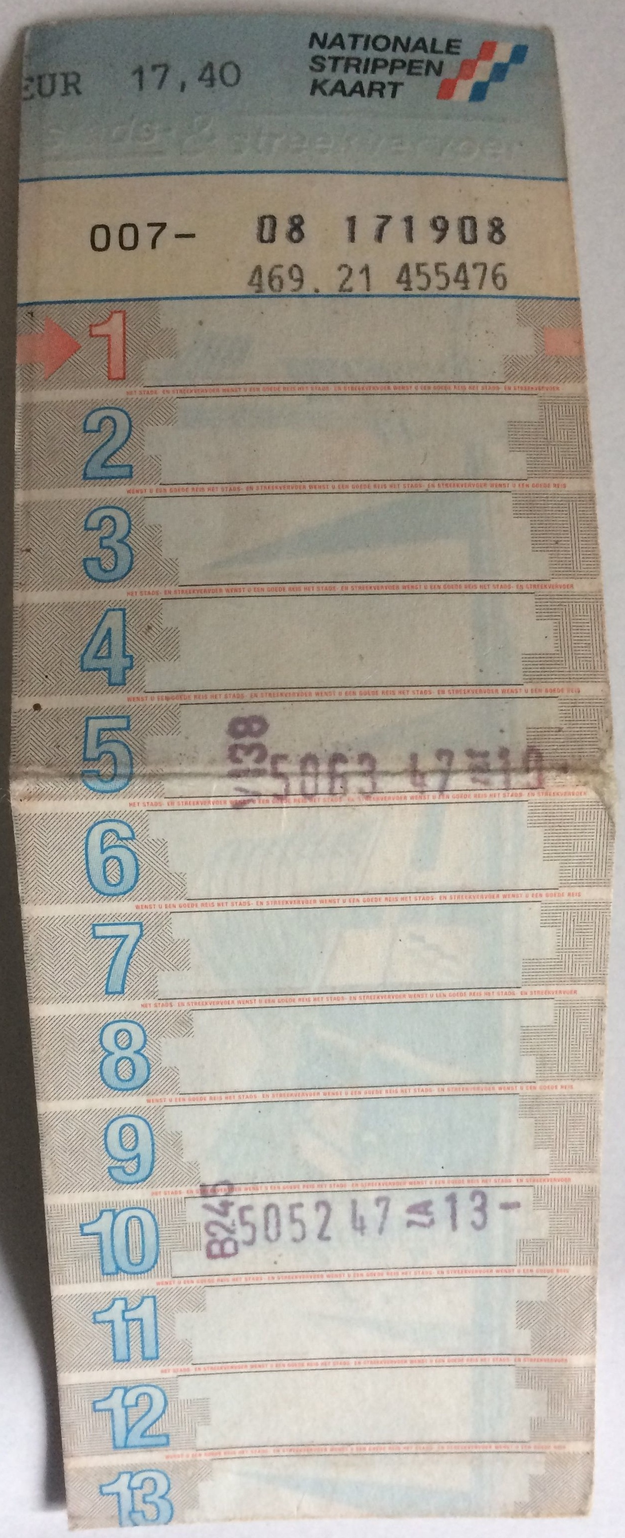 Strippenkaart was the system in Netherlands to pay for and travel with public transport from 8 May 1980 until 3 November 2011.